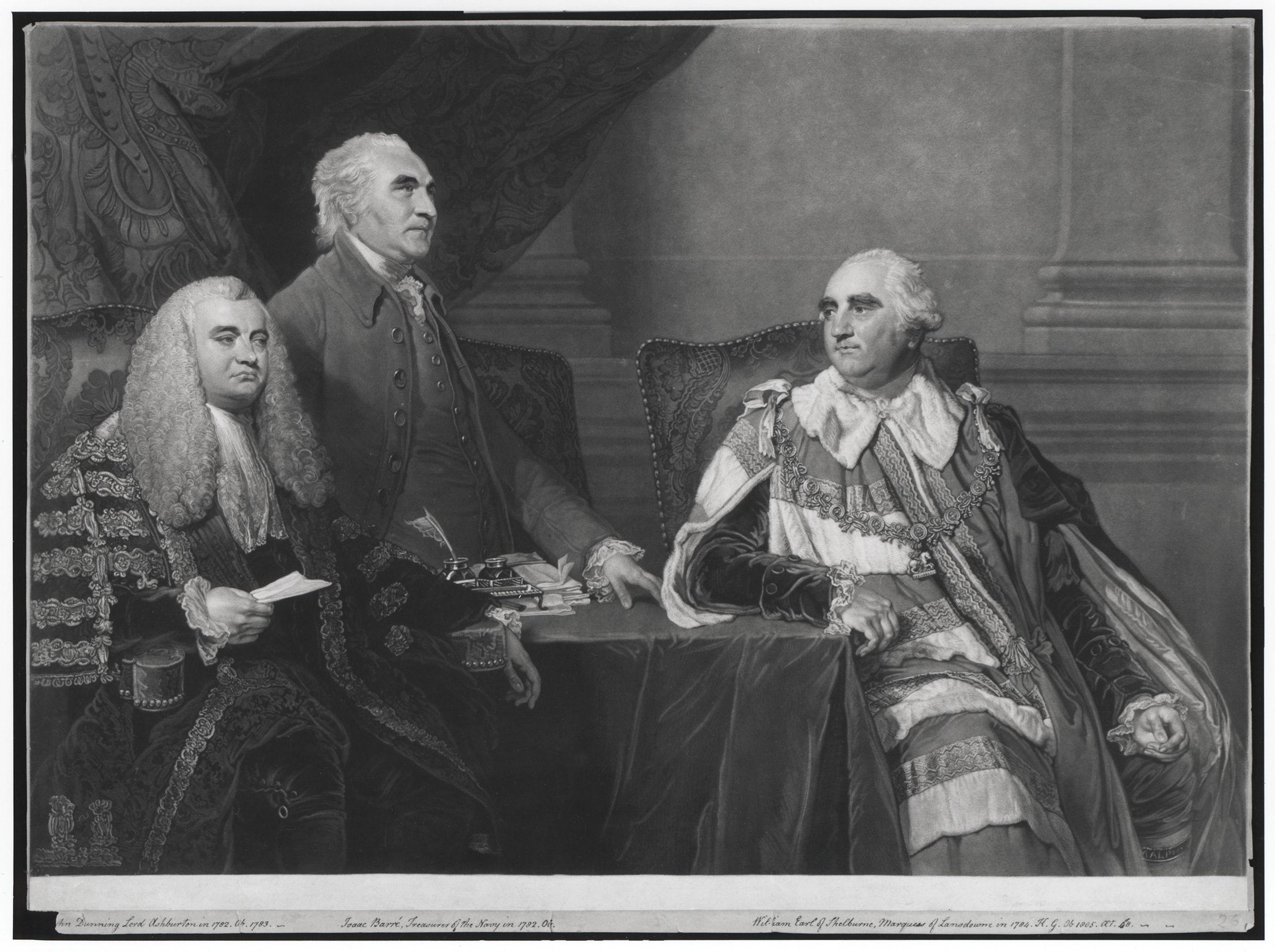 John Dunning, 1st Baron Ashburton; Isaac Barré; William Petty, 1st Marquess of Lansdowne (Lord Shelburne), by Sir Joshua Reynolds (died 1792). All images in this batch have been confirmed as author died before 1939 according to the official death date listed by the NPG.